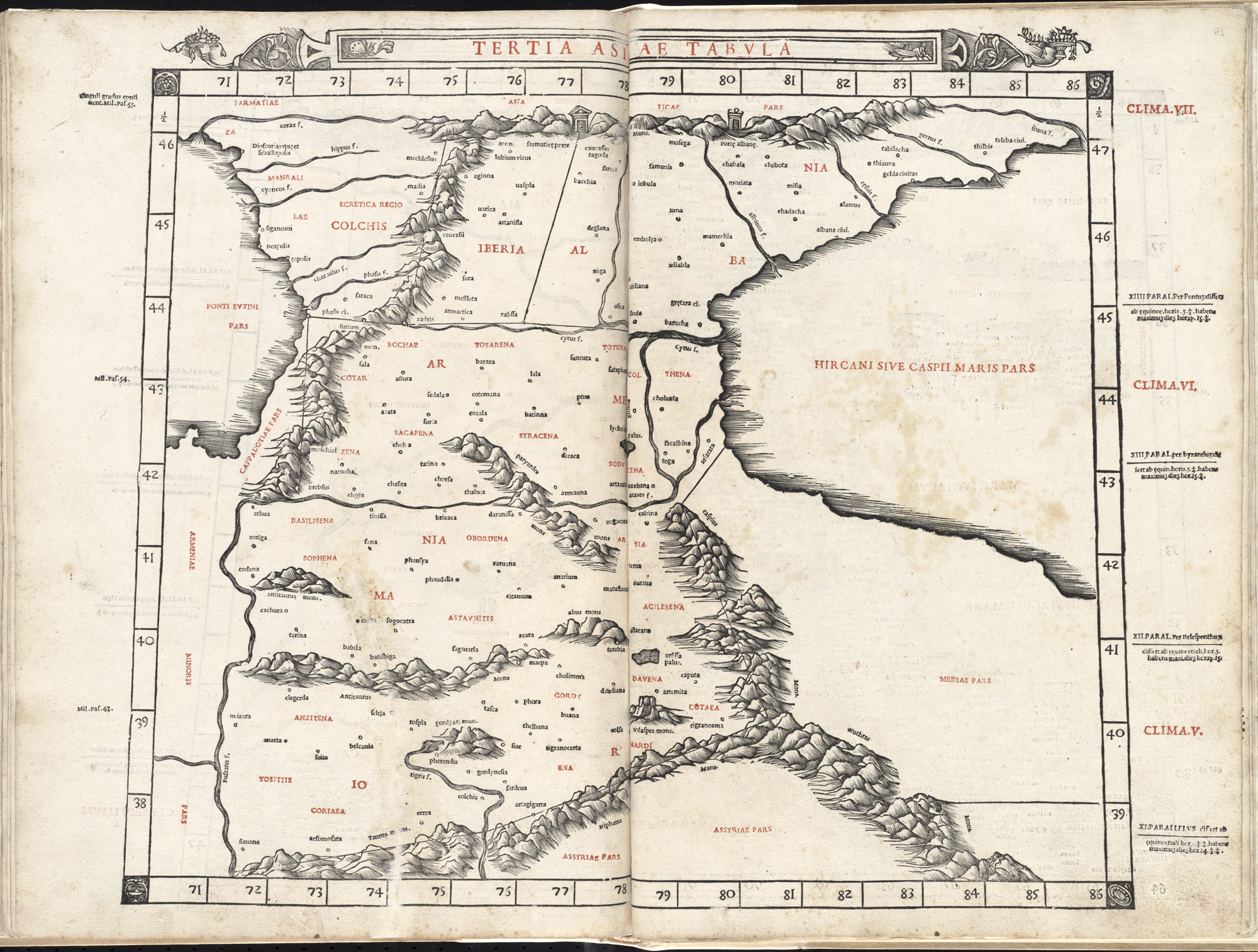 Zoom into this map at . Author: Ptolemy, 2nd cent. Publisher: Pencio, Jacopo Date: 1511 Location: Turkey Dimension: 36 x 50 cm. Scale: [c. 1:3,200,000] Call Number: G1005 .P7 1511